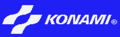 The 2nd logo of Konami, since August 1986.